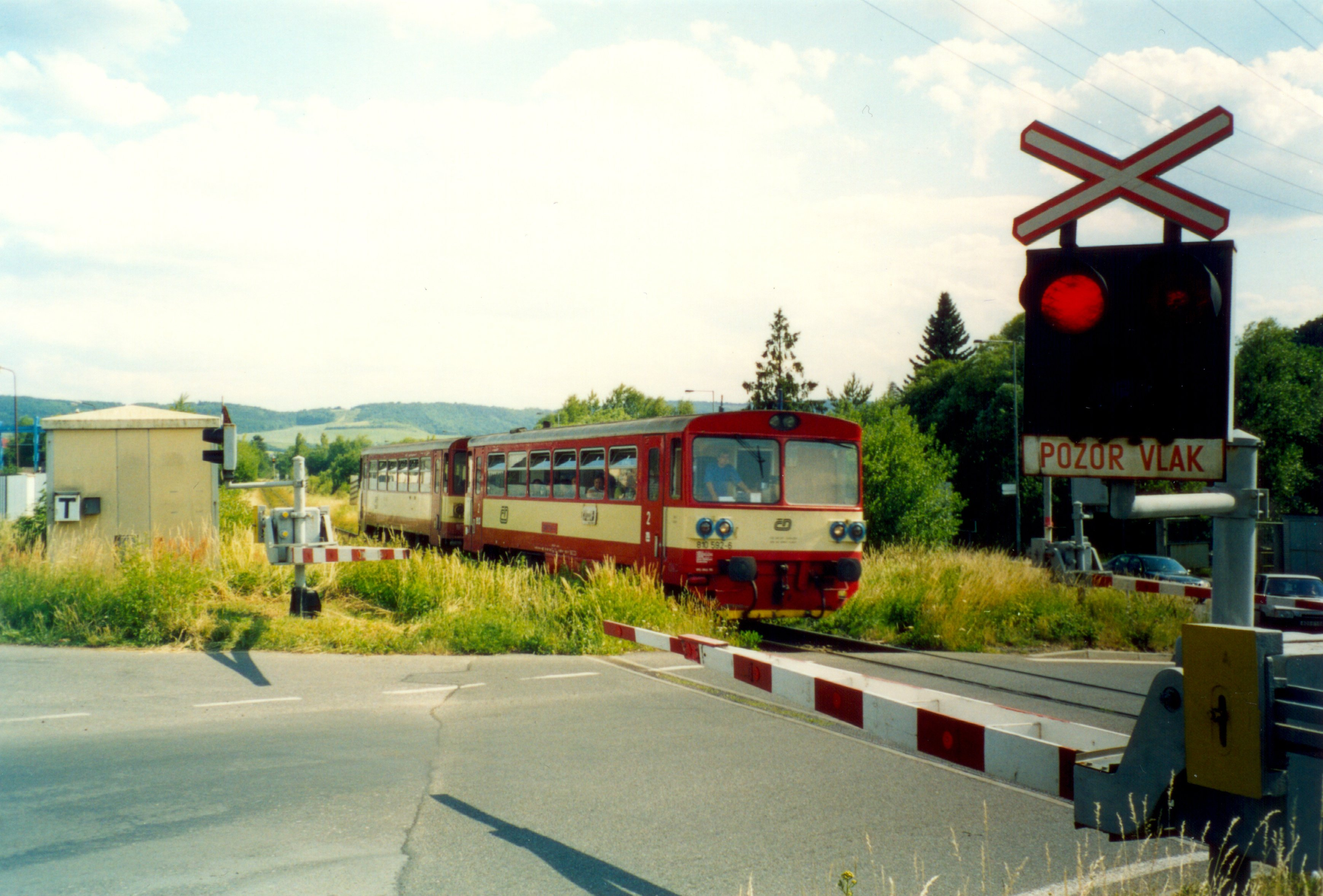 ČD's 810 592-6 with an unknown trailer, leaving Beroun (going north, towards Hýskov).